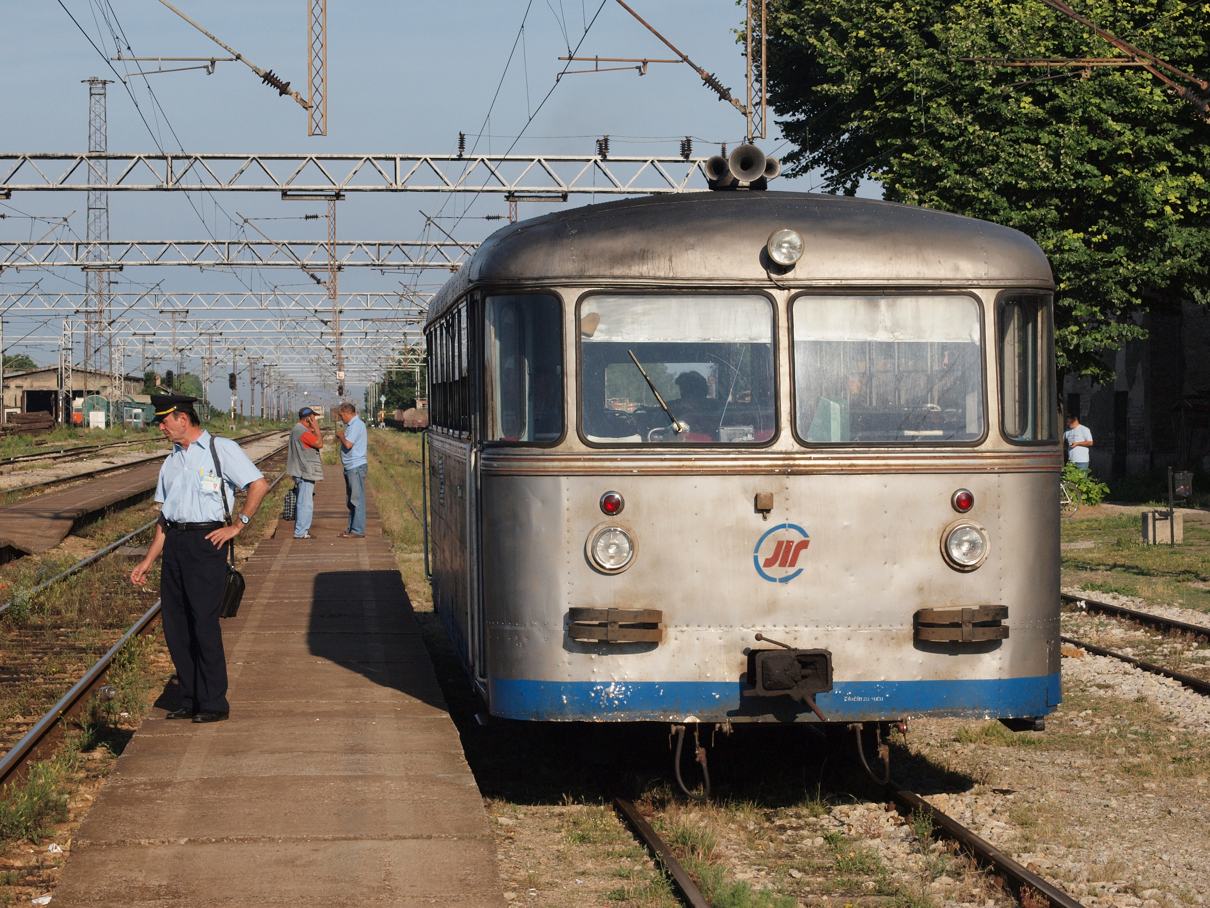 Sinobus to Sabac